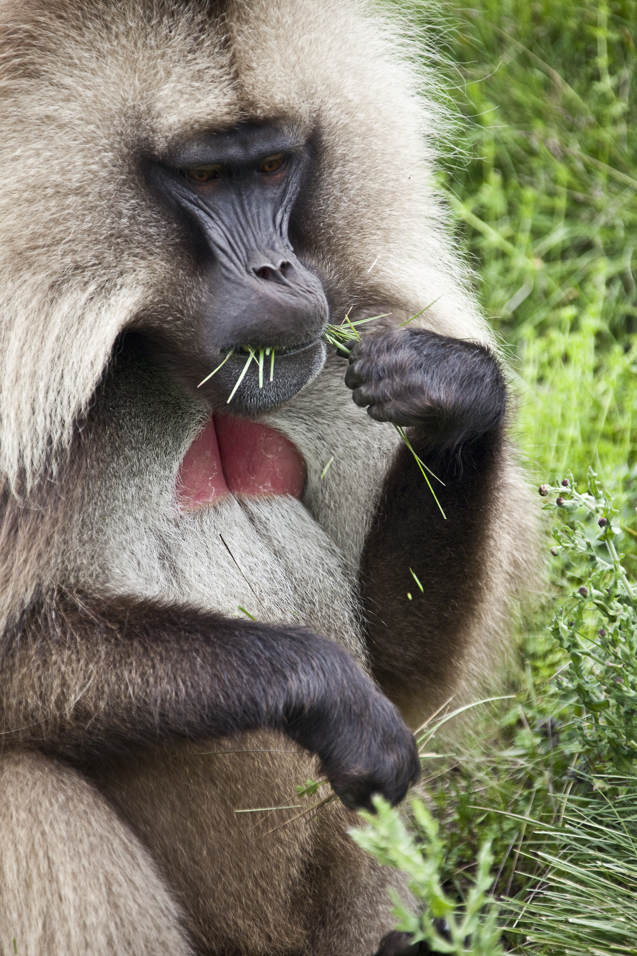 Gelada Baboon, Semien Mountains National Park. Ethiopia